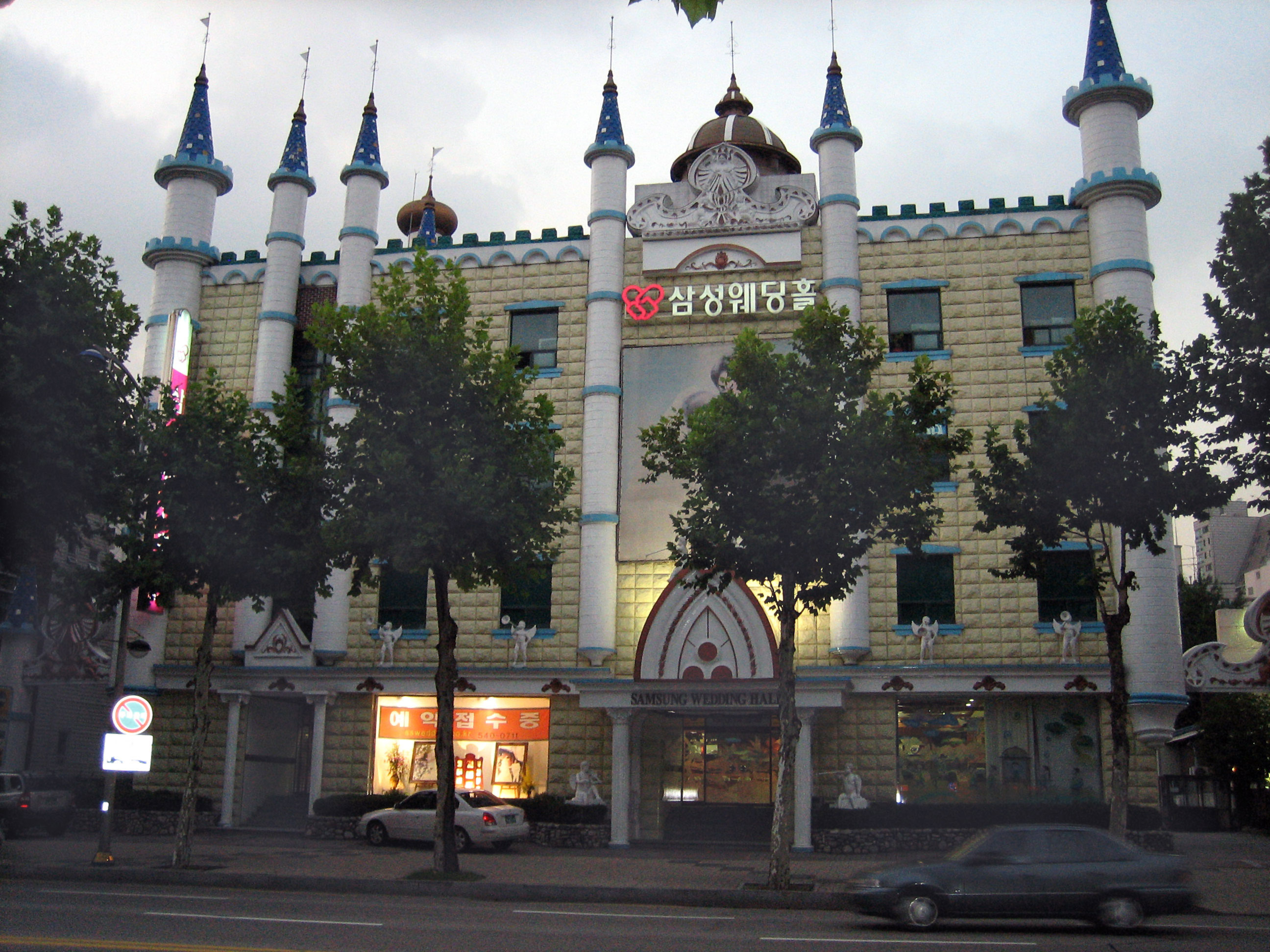 This is a picture taken by myself in Seoul (South Korea). This building is the Samsung Wedding Hall. Wedding halls are buildings where Korean people can get married. The architecture is often quite pretty and ostentatious, to make it feel like a dream.